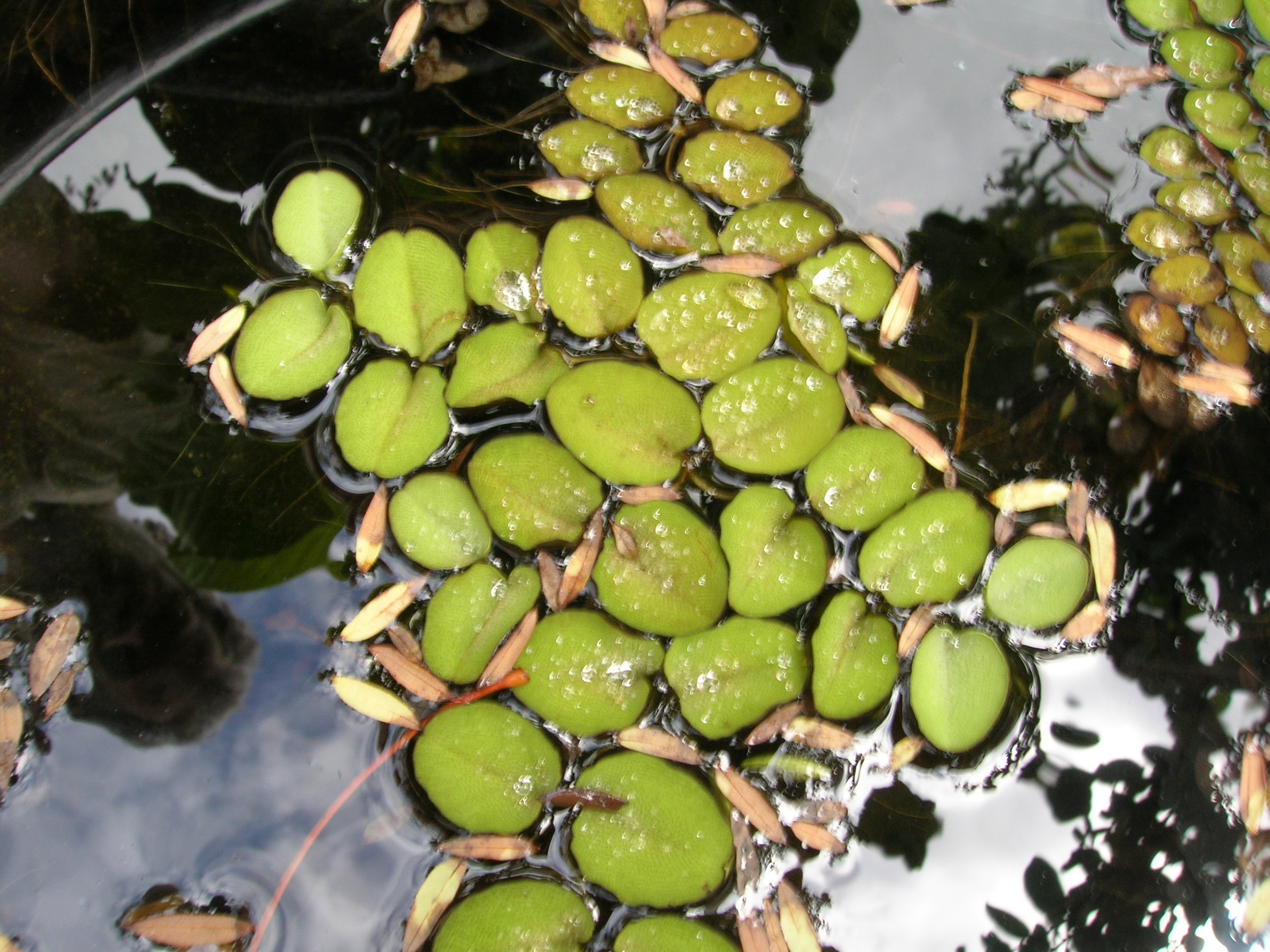 Salvinia molesta (habit). Location: Maui, Kula